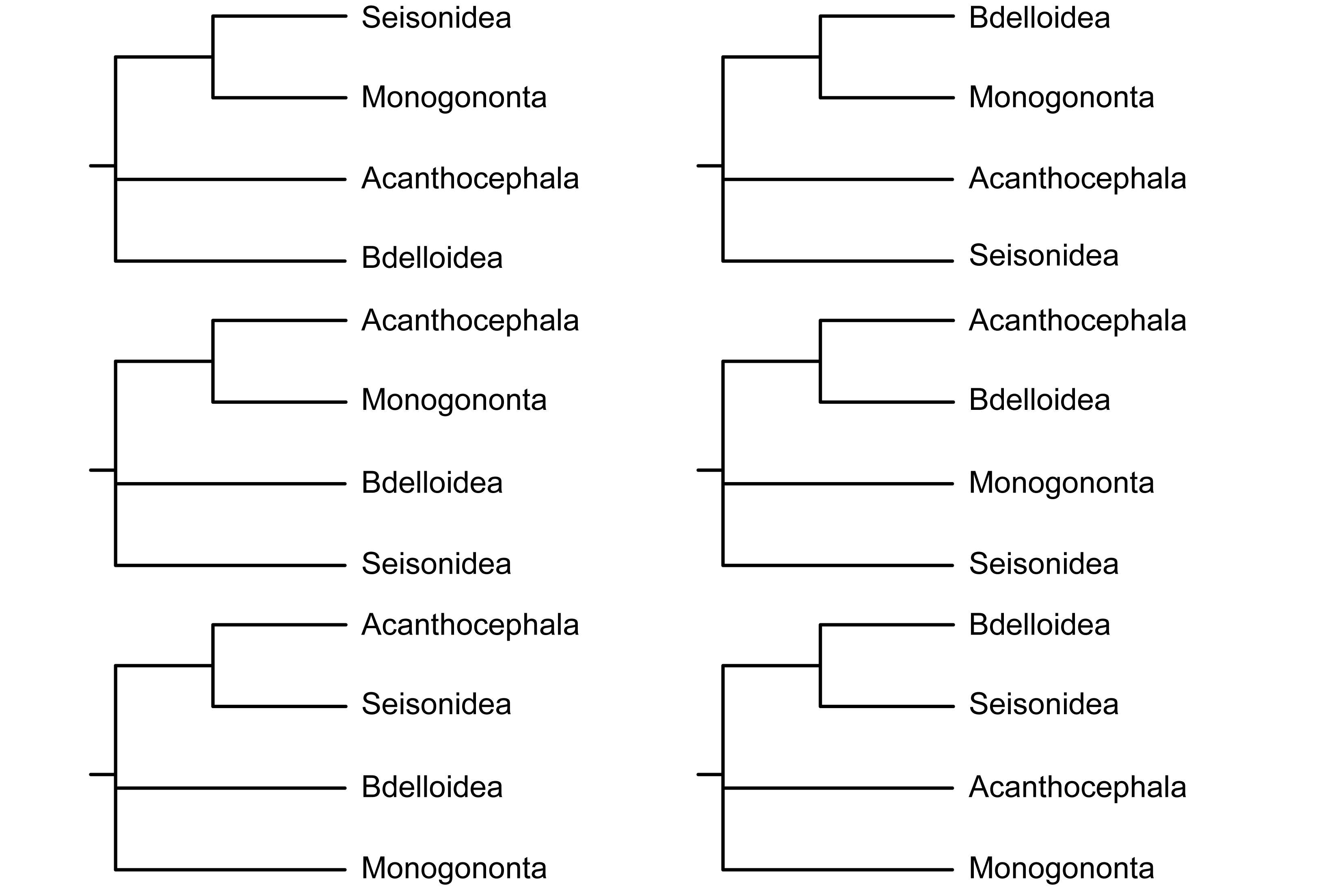 This file shows six cladograms corresponding to hypothetical evolutionary relationships among four groups within the clade of invertebrates known as Syndermata.